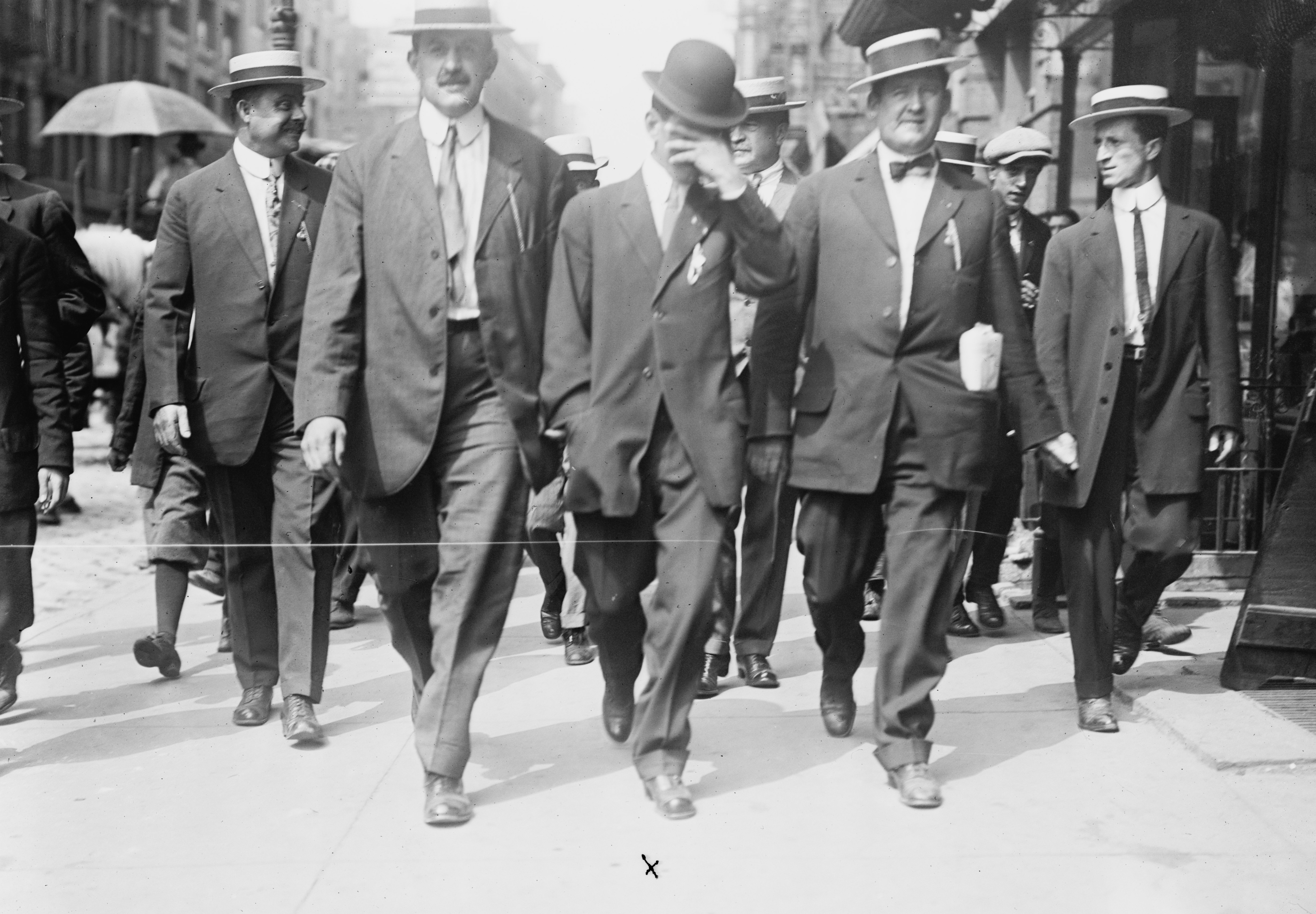 Title: "Dago" Frank dodging a camera Abstract/medium: 1 negative : glass ; 5 x 7 in. or smaller.